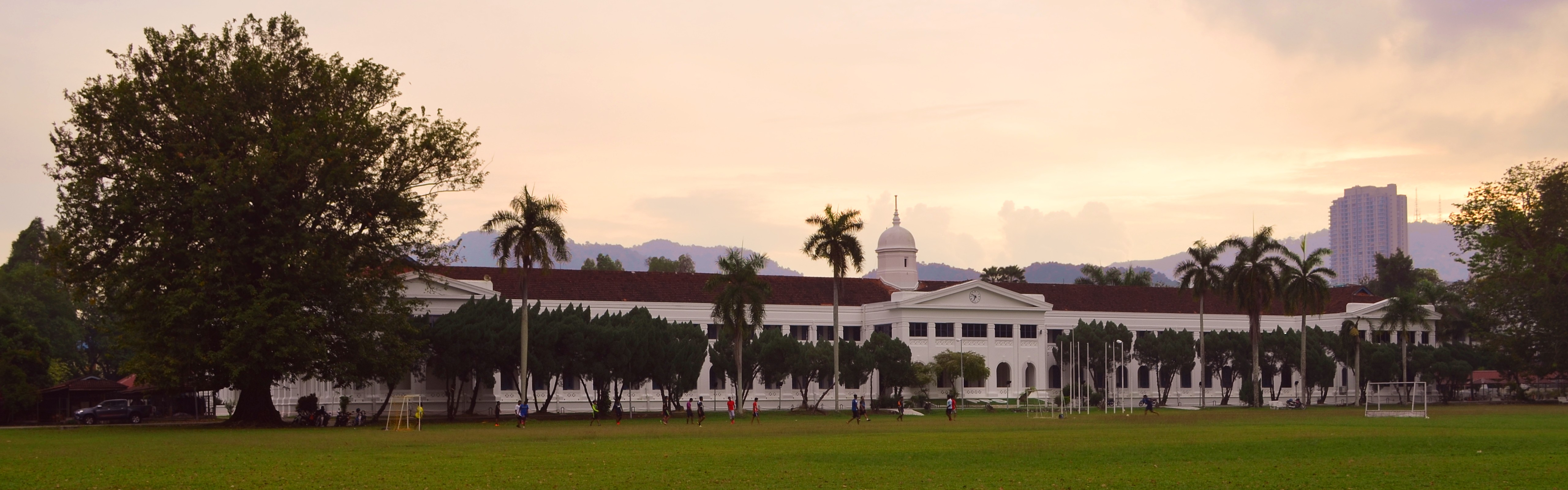 Panorama of the north facade of Penang Free School in January 2017.